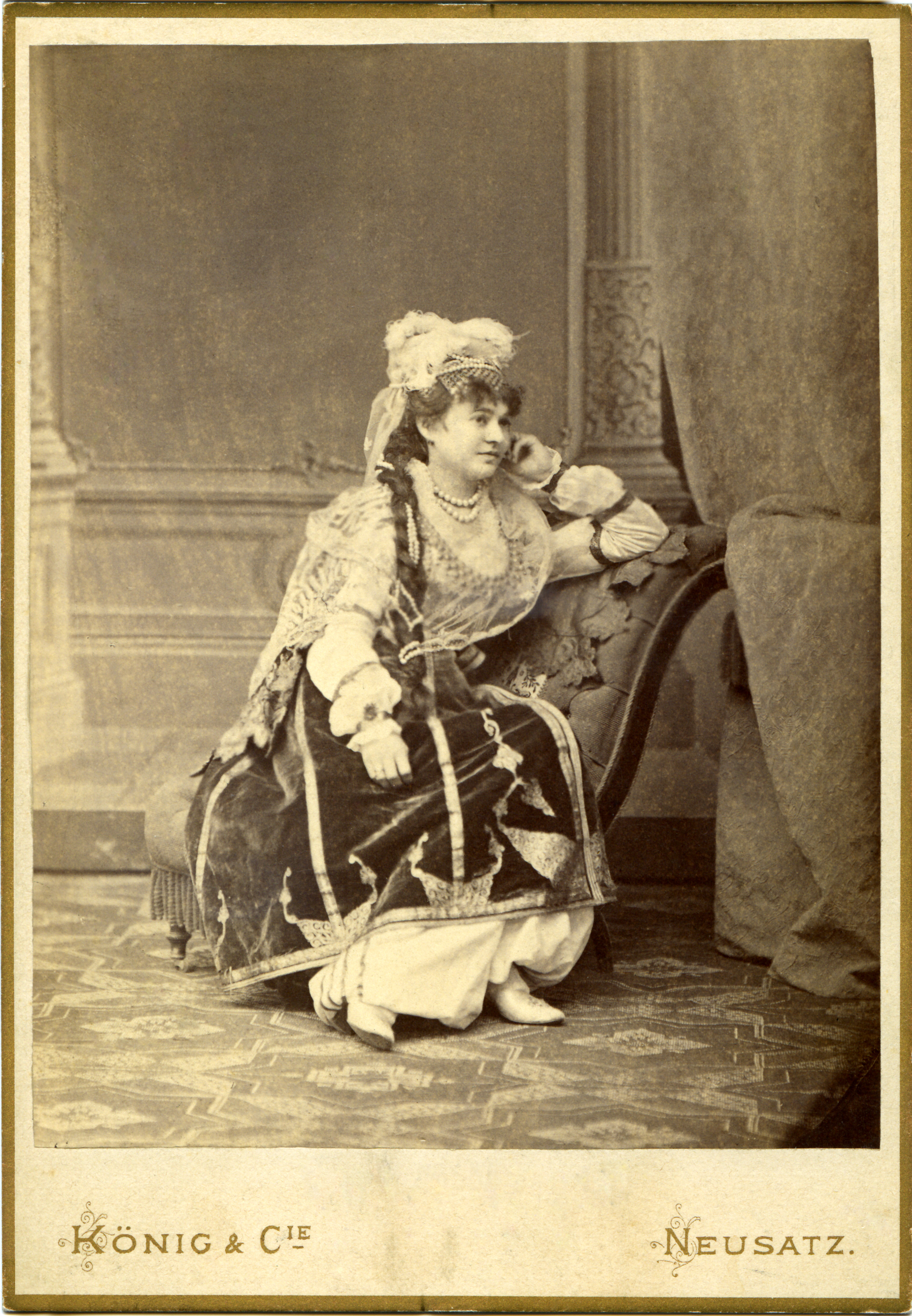 Lenka Hadžić (1856-1897) in costume of Anđelija in drama Maksim Crnojević by Laza Kostić, Photo Studio by Kenig and Singer, Novi Sad approx. 1884 Srpski (latinica): Lenka Hazic (1856-1897 u kostimu Anđelije u drami Maksim Crnojević, Laze Kostića, Atelje Kenig i Singer, Novi Sad oko 1884. Српски (ћирилица): Ленка Хаџић (1856–1897) у костиму Анђелије из комада Максим Црнојевић Л. Костића; Атеље Кенига и Сингера, Нови Сад, око 1884.